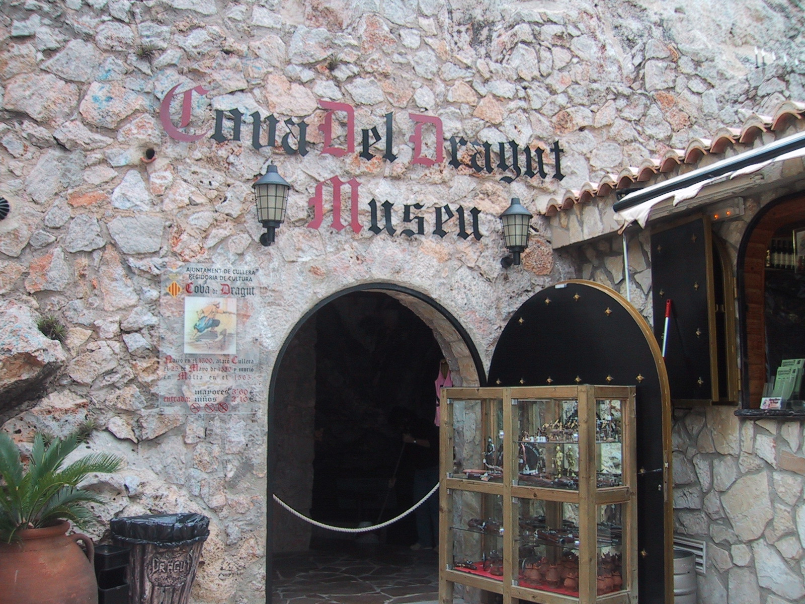 Cave-Museum of the Pirate Dragut